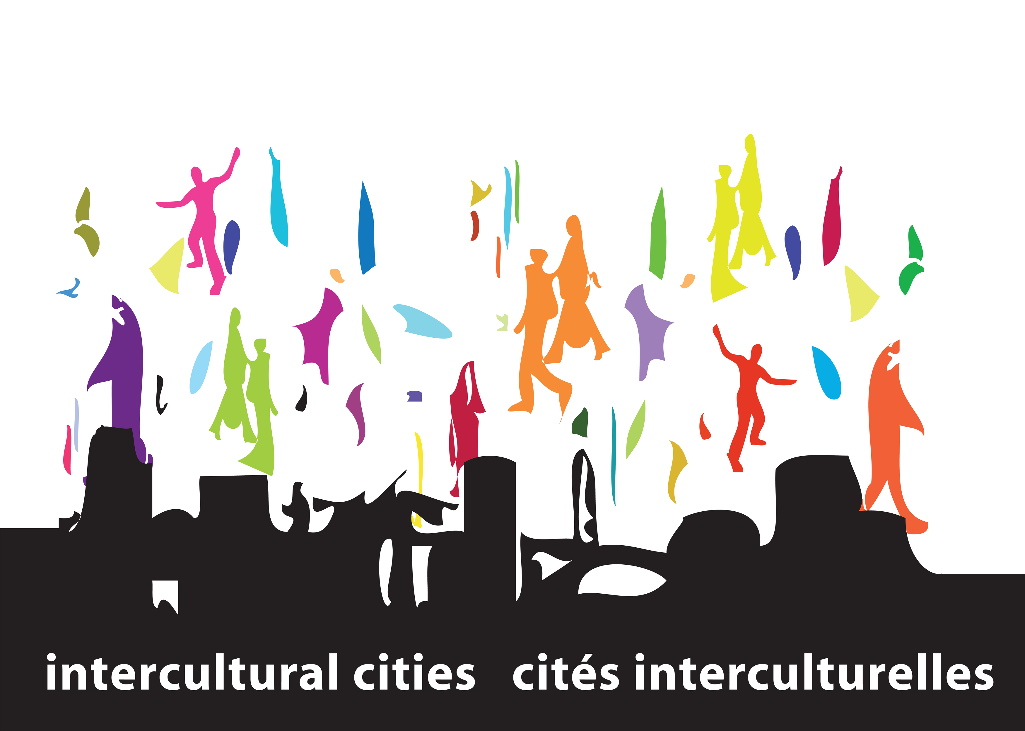 Logo of the Intercultural City programme, a joint project of the Council of Europe and the European Commission to stimulate new ideas and practice in relation to the integration of migrants and minorities.